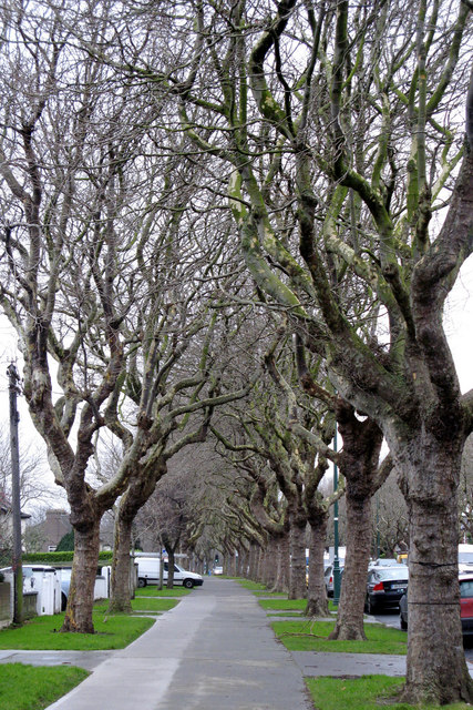 Griffith Avenue, Glasnevin, Dublin, Ireland A lovely tree lined boulevard in North Dublin. The Irish Taoiseach (Prime Minister) Bertie Ahern lives off this road.